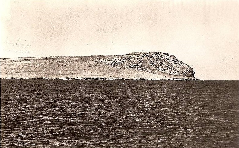 View of Cape Guardafui at the tip of the Horn of Africa with its distinctive "sleeping lion" shape. Postcard issued c. 1900-1910.